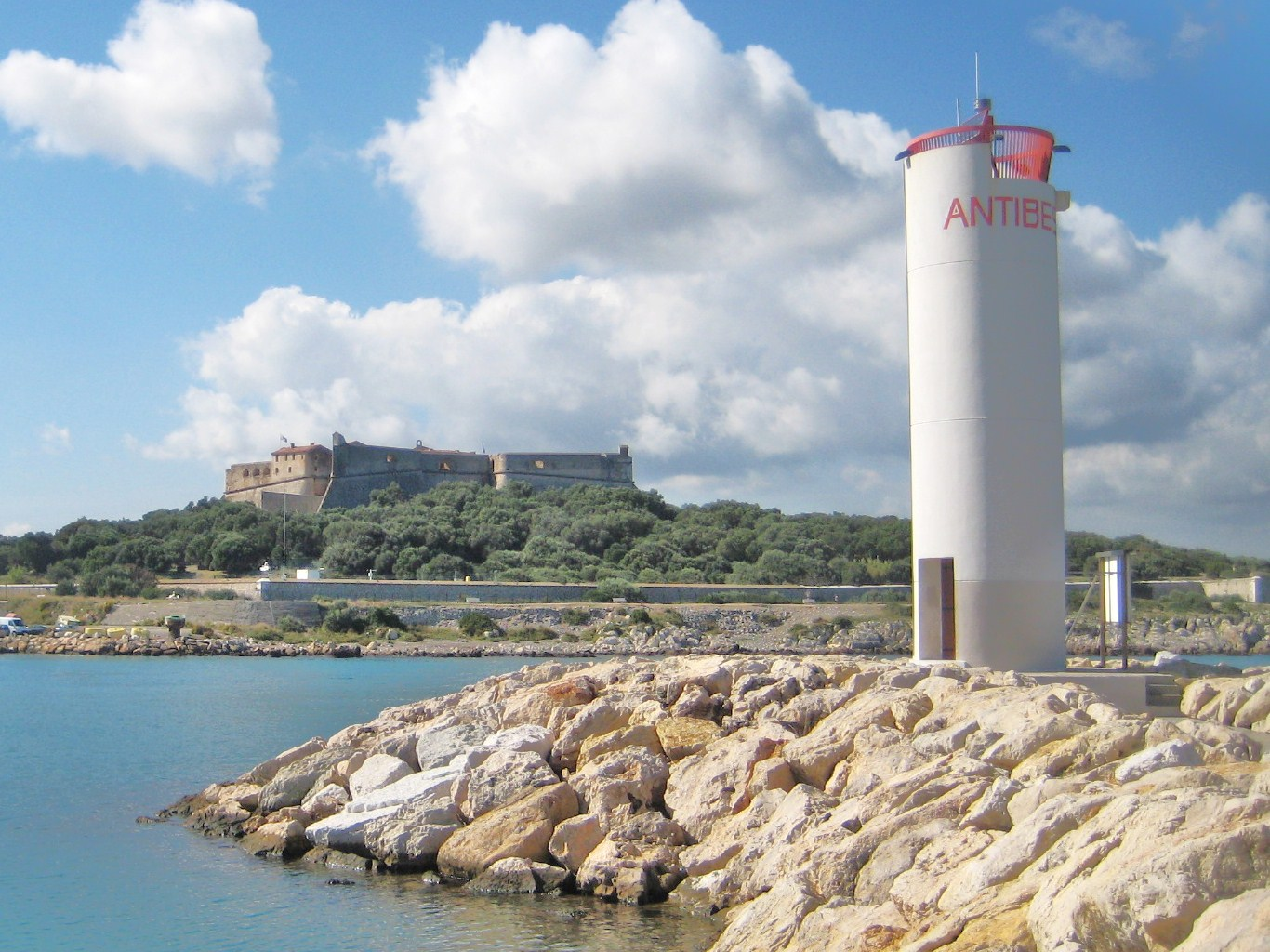 Description fort carre port vauban Antibes Date22 October 2011Sourcemon appareil photoAuthorAimelaimePermission (Reusing this file) fort carre port vauban Antibes